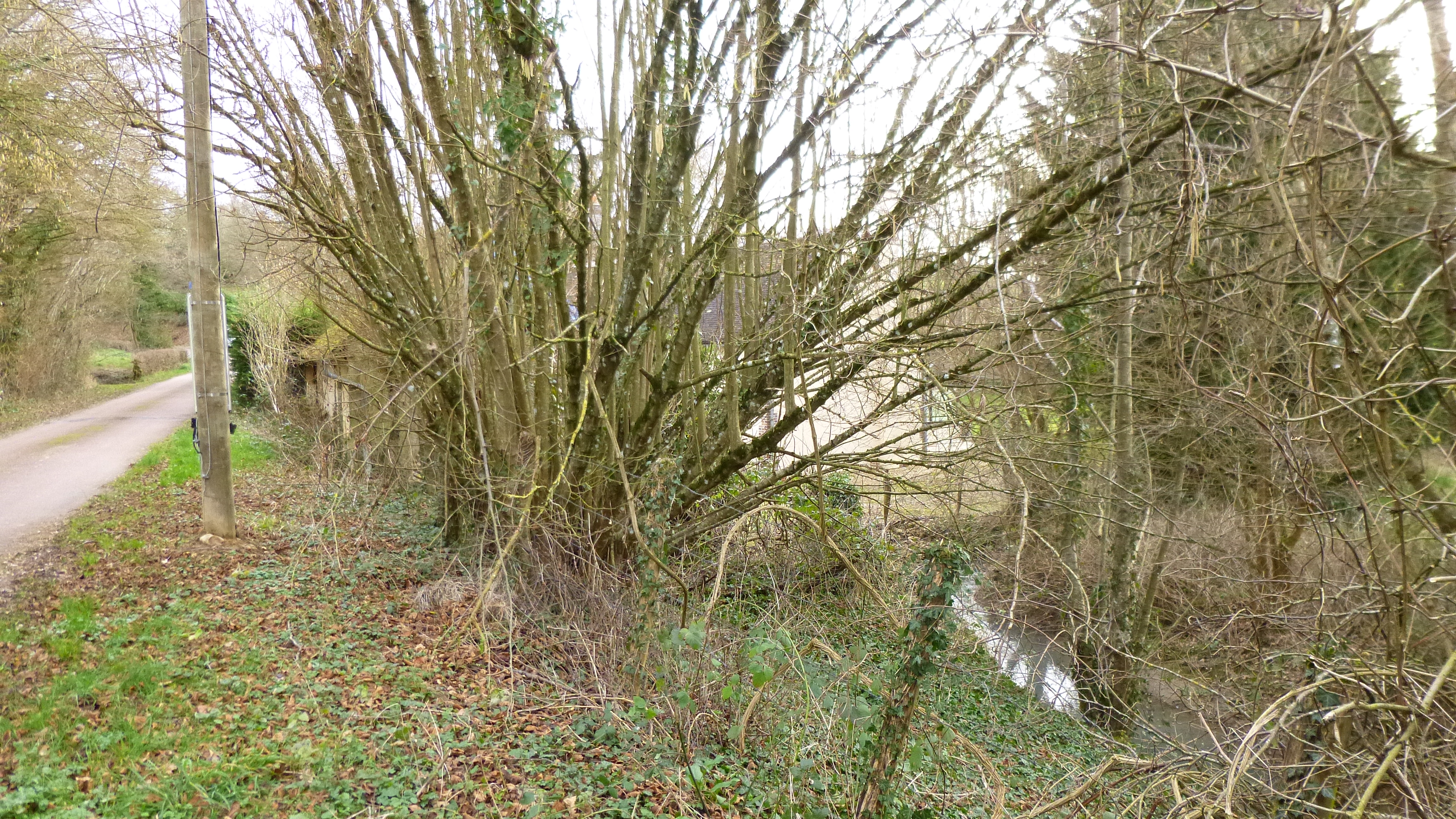 Perreux, Yonne, Burgundy, France. Hamlet "le Petit Moulin". Ru des Morisois, at the Petit Moulin, just before the confluence with the ru des Pierres which runs close behind the house. (From that confluence onwards, the ru des Pierres becomes the Peruseau.) Looking downstream.